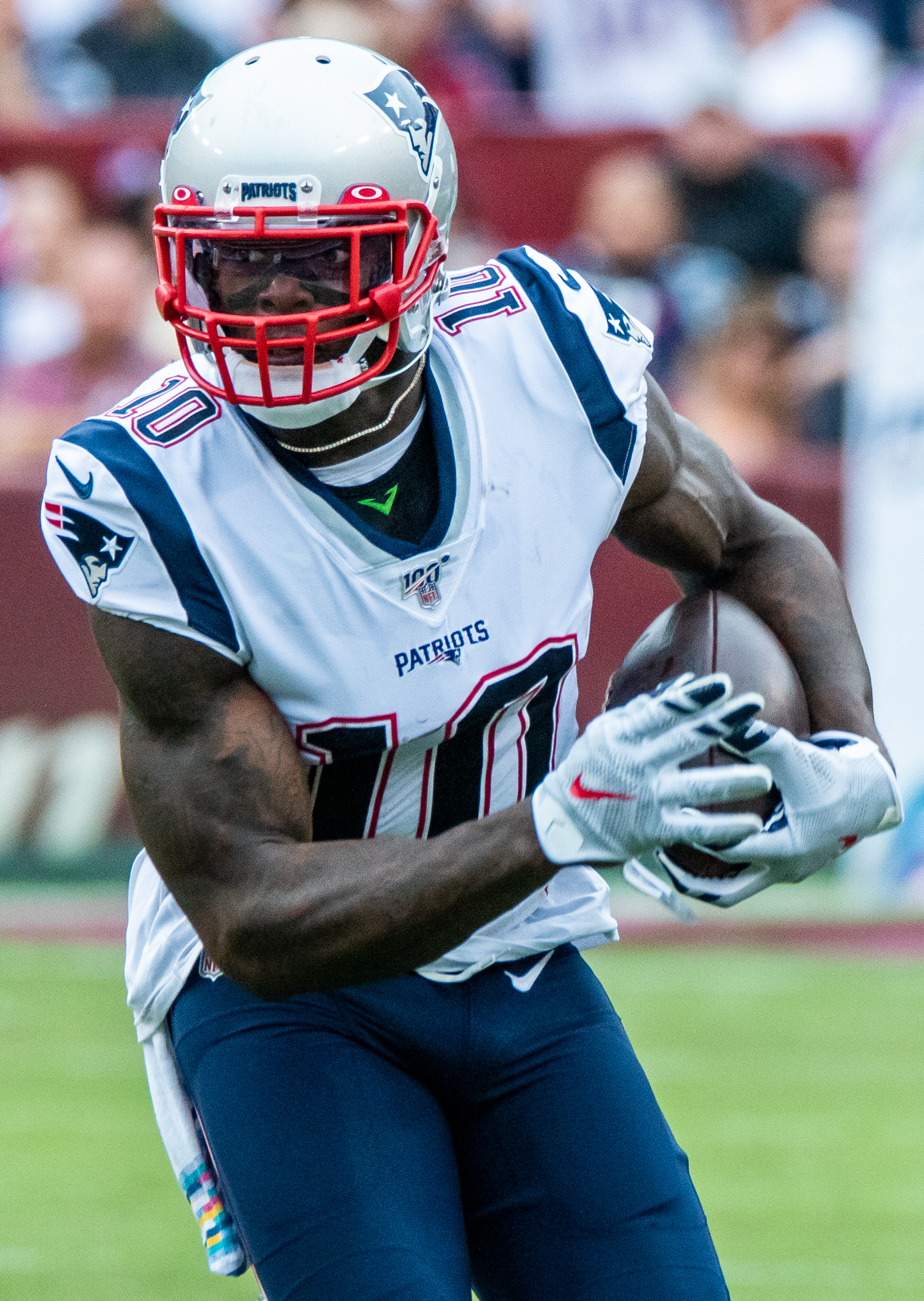 In 2019